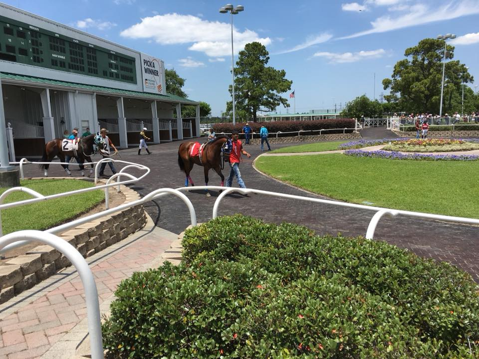 Sam Houston Race Park paddock with horses getting ready for the next race.